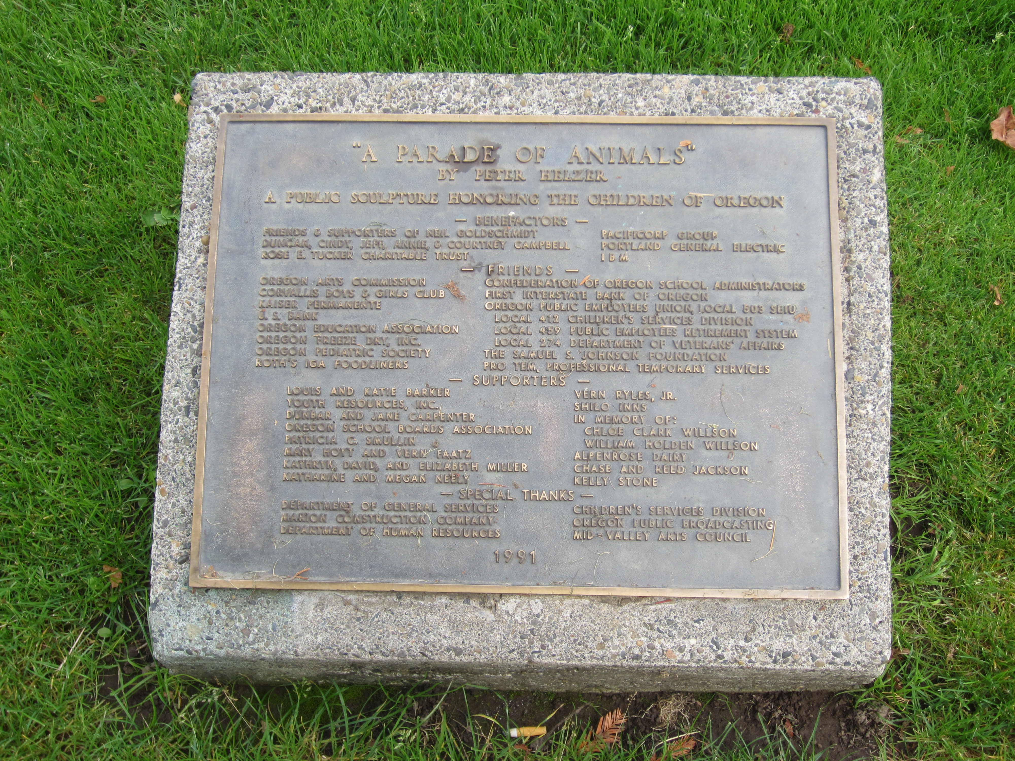 Salem, Oregon (2018)